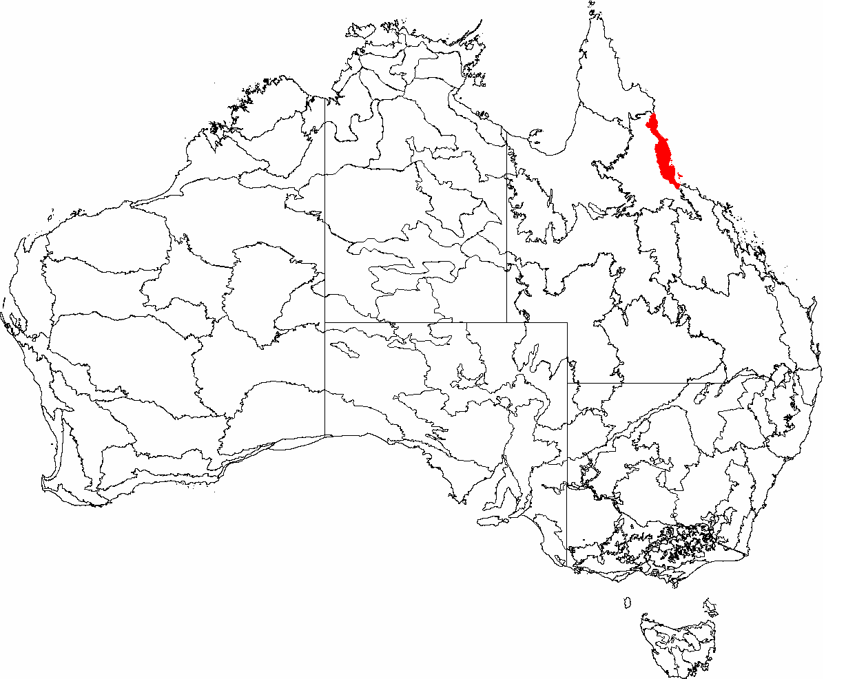 This is a map of the Interim Biogeographic Regionalisation of Australia (IBRA), with state boundaries overlaid. The Wet Tropics region is shown in red.